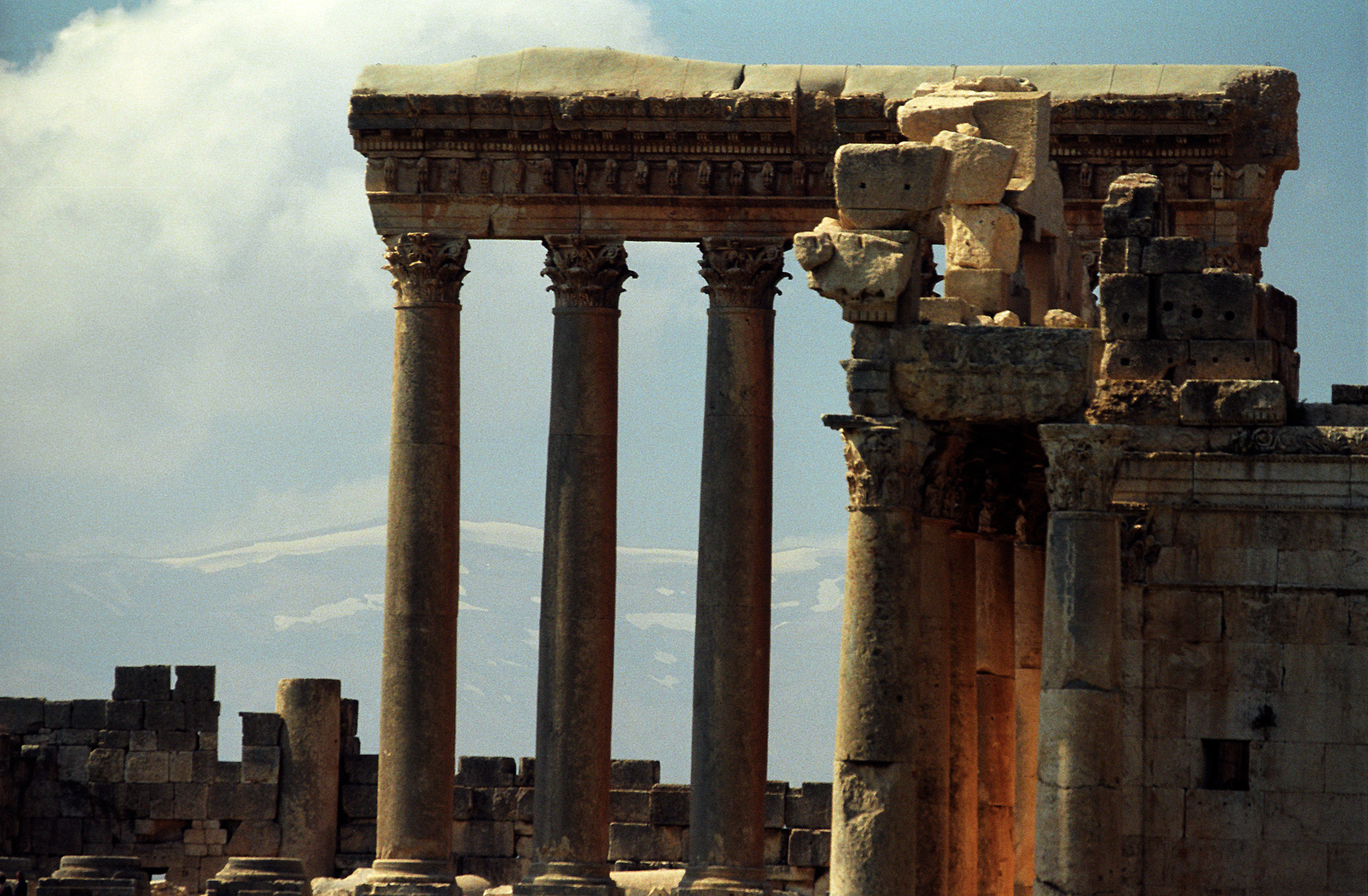 Baalbek, Temple of Jupiter and Lebanon Mountains